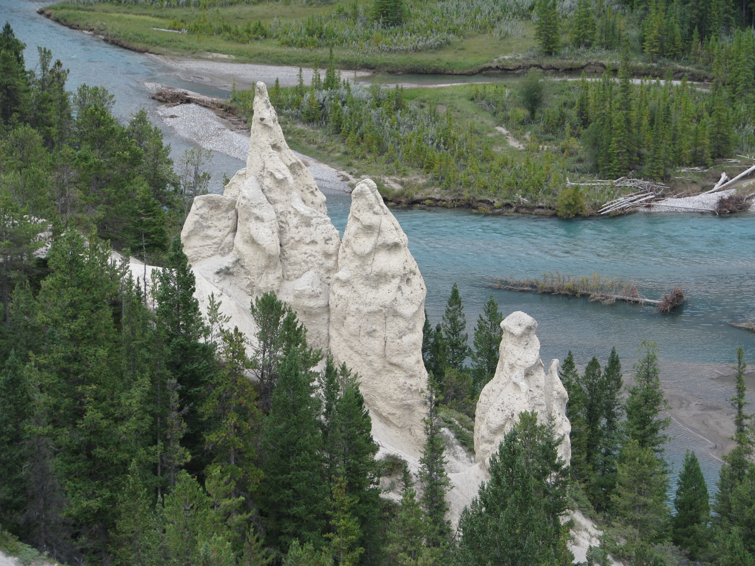 hoodoo in Banff national park